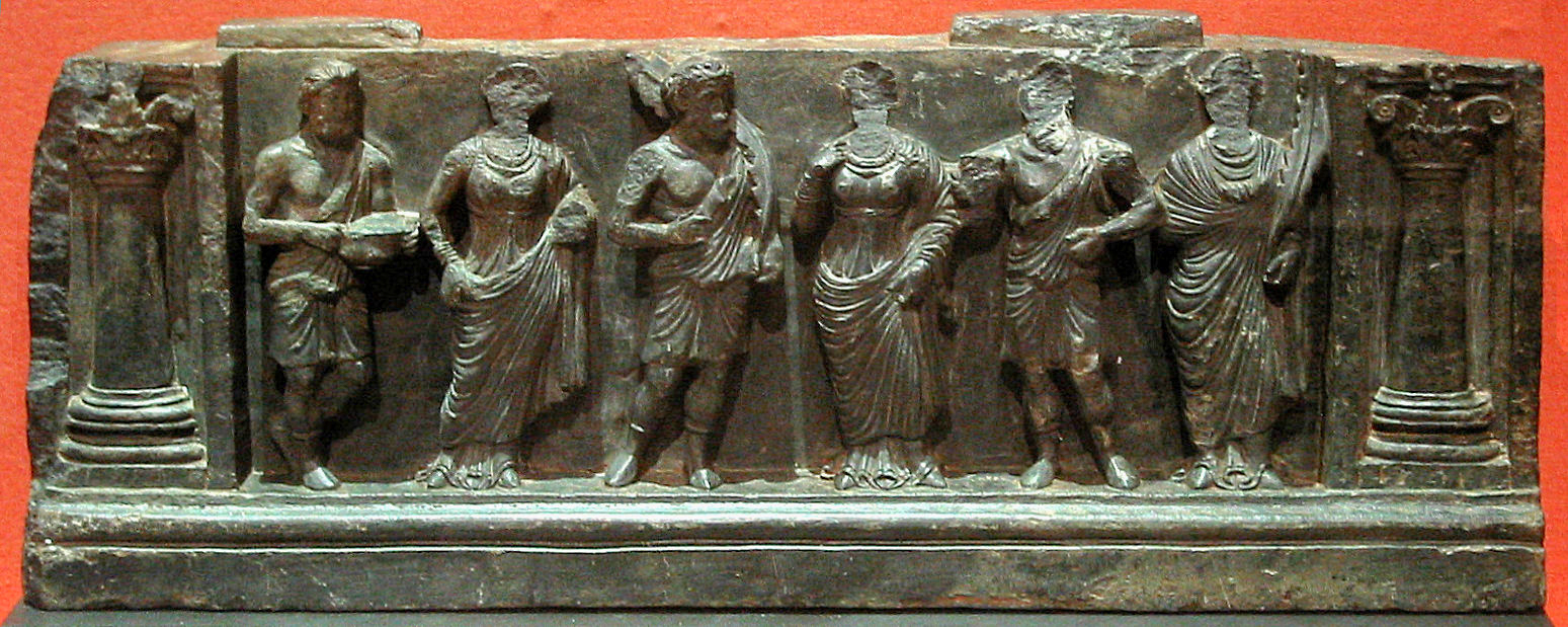 Gandhara frieze with donor, in purely Hellenistic style, 1st-2nd century CE. Buner, Swat, Pakistan. Victoria and Albert Museum. Personal photograph, 2005.